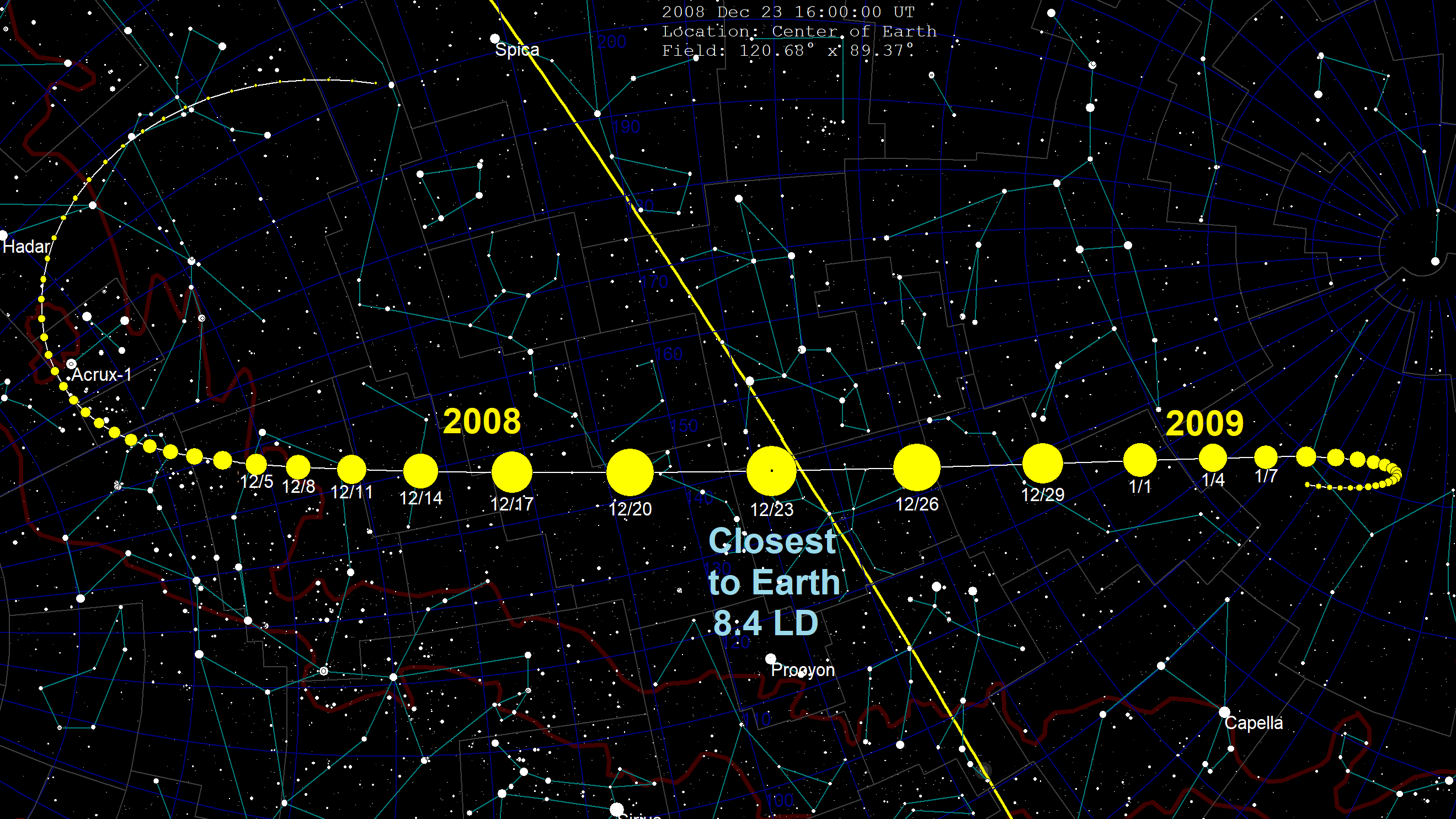 (341843) 2008 EV5 path in sky during Dec 2008 near-earth passing